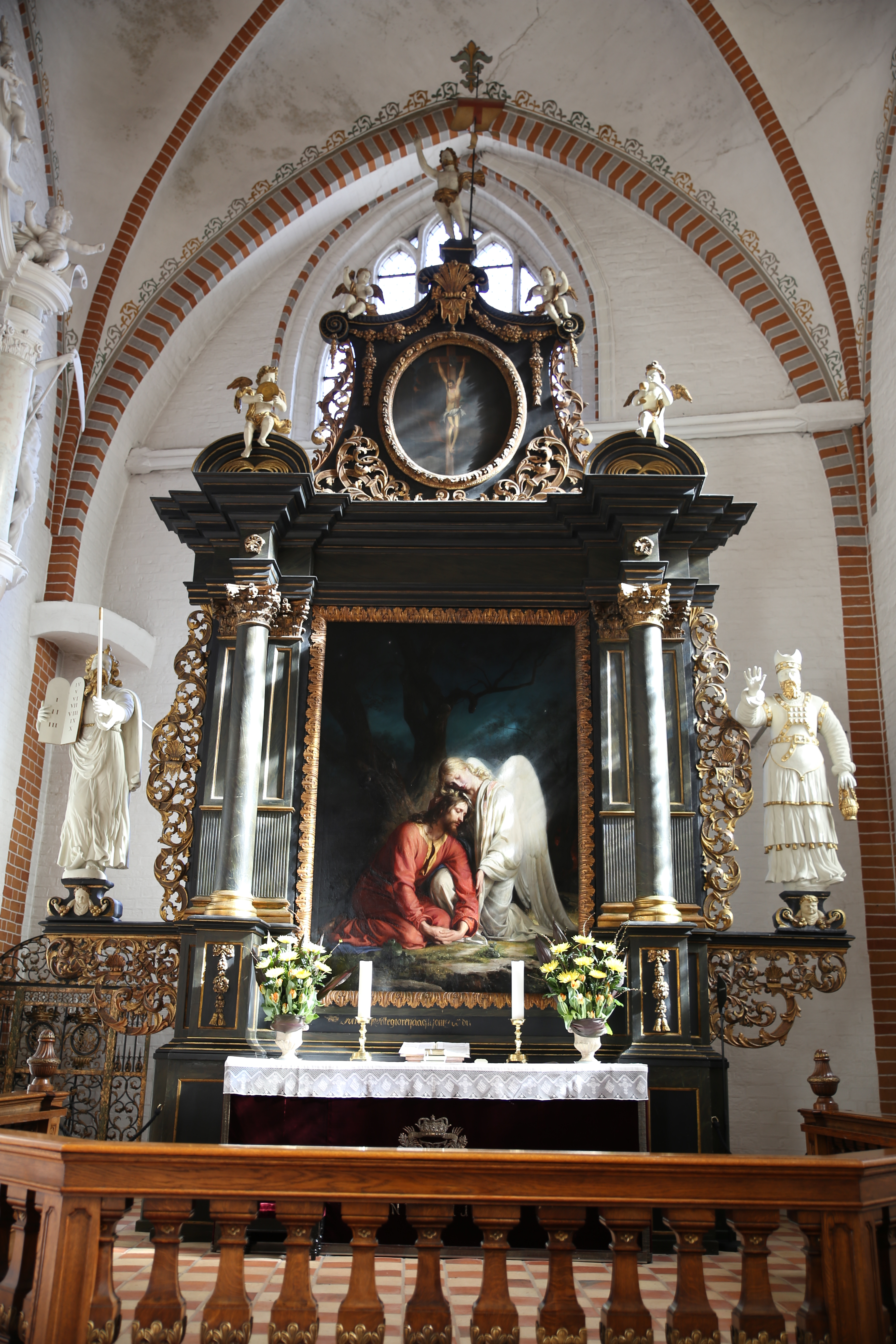 The altarpiece in Sct. Hans Church in Odense, Denmark. The painting, Jesus in Gethsemane from 1879, is by Carl Bloch.